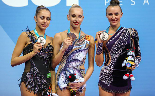 2016 Rhythmic Gymnastics World Cup Pesaro: Margarita Mamun,Yana Kudryavtseva, Ganna Rizatdinova